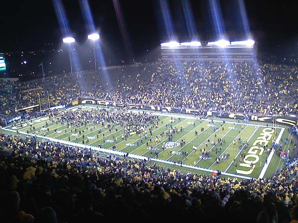 Oregon fans storm the field following the 48–29 victory for the Ducks over the Arizona Wildcats in Autzen Stadium that clinched the 2010 Pac-10 football championship.